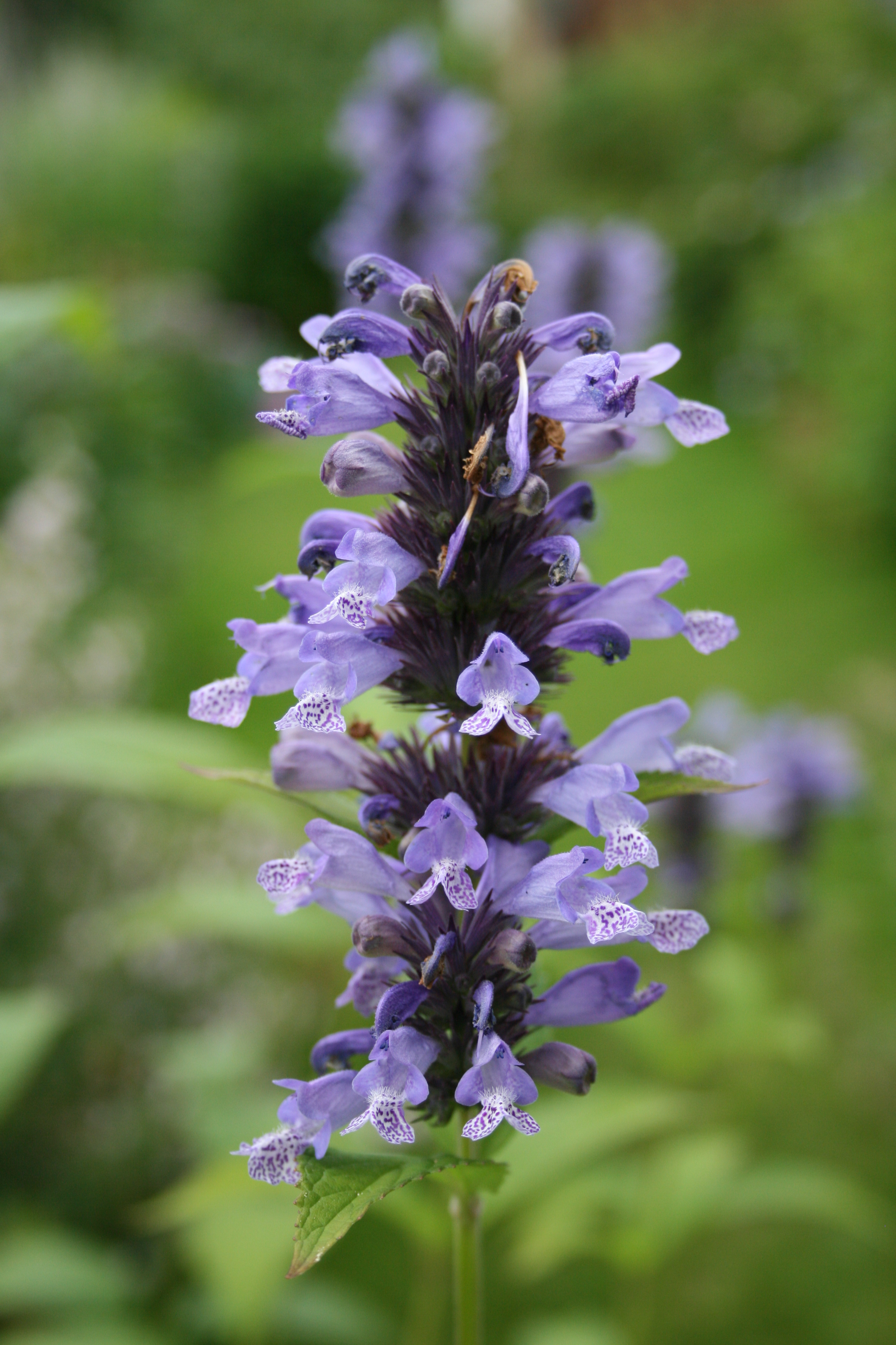 Nepeta manchuriensis